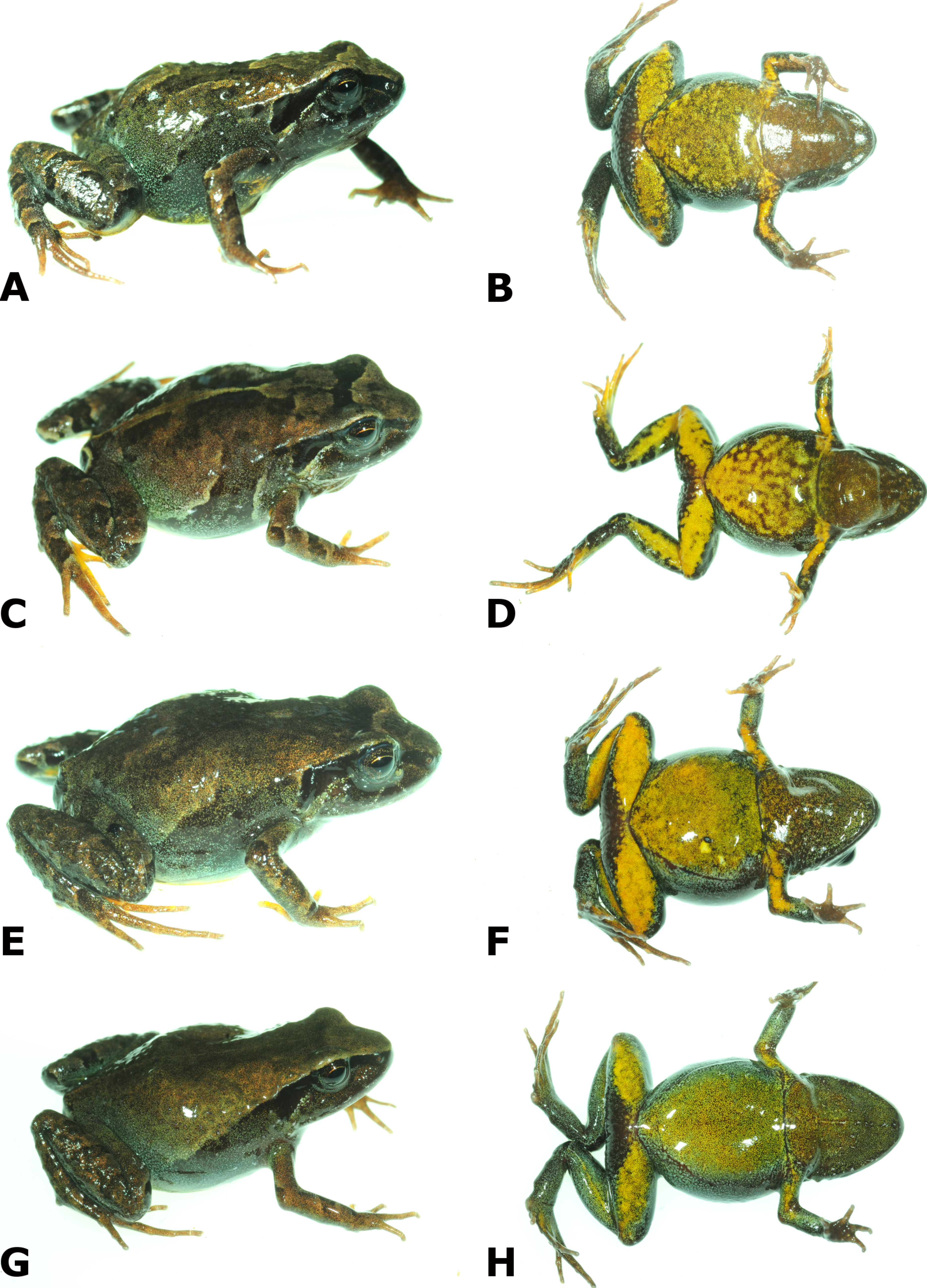 Male MHNC 14656 (A, B), Tambo Japu. Male MHNC 14667 (C, D), type locality. Female CORBIDI 16502 (E, F), Playa camp site. Female CORBIDI 16499 (G, H), type locality. Photographs by A. Catenazzi.